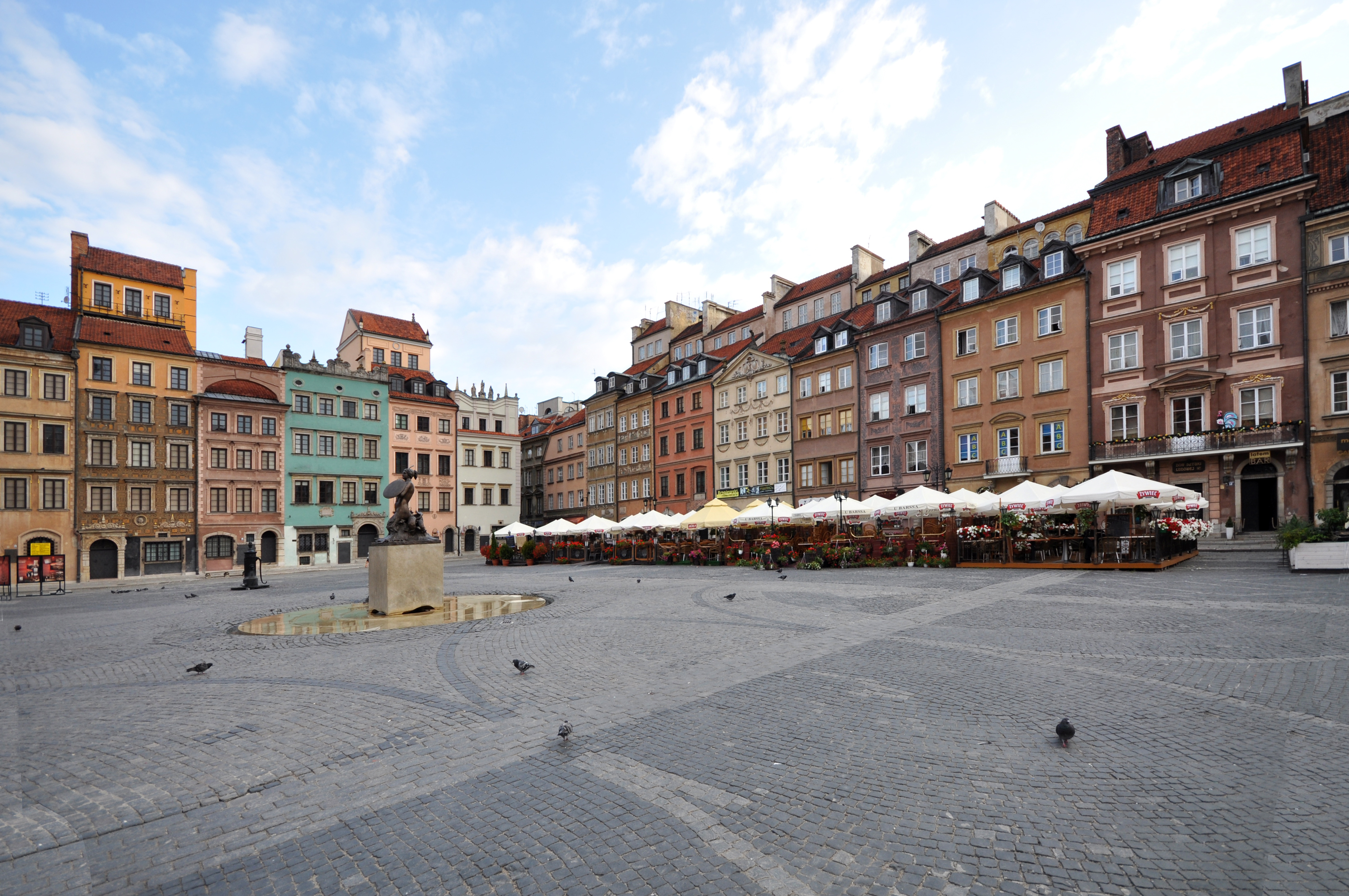 Warsaw's Old Town Market Place (Polish: Rynek Starego Miasta) is the center and oldest part of the Old Town of Warsaw, capital of Poland. Immediately after the Warsaw Uprising, it was systematically blown up by the German Army. After World War II, the Old Town Market Place was restored to its prewar appearance. History The Old Town Market Place is the true heart of the Old Town, and until the end of the 18th century it was the heart of all of Warsaw. It originated in the late 13th century, at the same time the city was founded. Here the representatives of guilds and merchants met in the Town Hall (built before 1429, pulled down in 1817), and fairs and the occasional execution were held. The houses around it represented the Gothic style until the great fire of 1607, after which they were rebuilt in late-Renaissance style and eventually in late-Baroque style by Tylman Gamerski in 1701. The main feature at that time was immense Town Hall, reconstructed in 1580 in the style of Polish mannerism by Antoneo de Ralia and again between 1620-1621. The architecture of the building was similar to many other structures of that type in Poland (e.g. Town Hall in Szydłowiec). It was adorned with attic and four side towers. Clock tower, embellished with an arcade loggia, was covered with a bulbous spire typical for Warsaw mannerist architecture (e.g. Royal Castle, not existing timber manor house of Opaliński family in Warsaw New Town).[6] The names of 18th-century Polish parliamentarians are used for the four sides of this vast (90 by 73 m or 295 by 240 ft) square. The district was damaged by the bombs of the German Luftwaffe during the Invasion of Poland (1939). The ancient Market Place was rebuilt in the 1950s, after having been again damaged by the German Army after the suppression of the 1944 Warsaw Uprising. Today it is a major tourist attraction